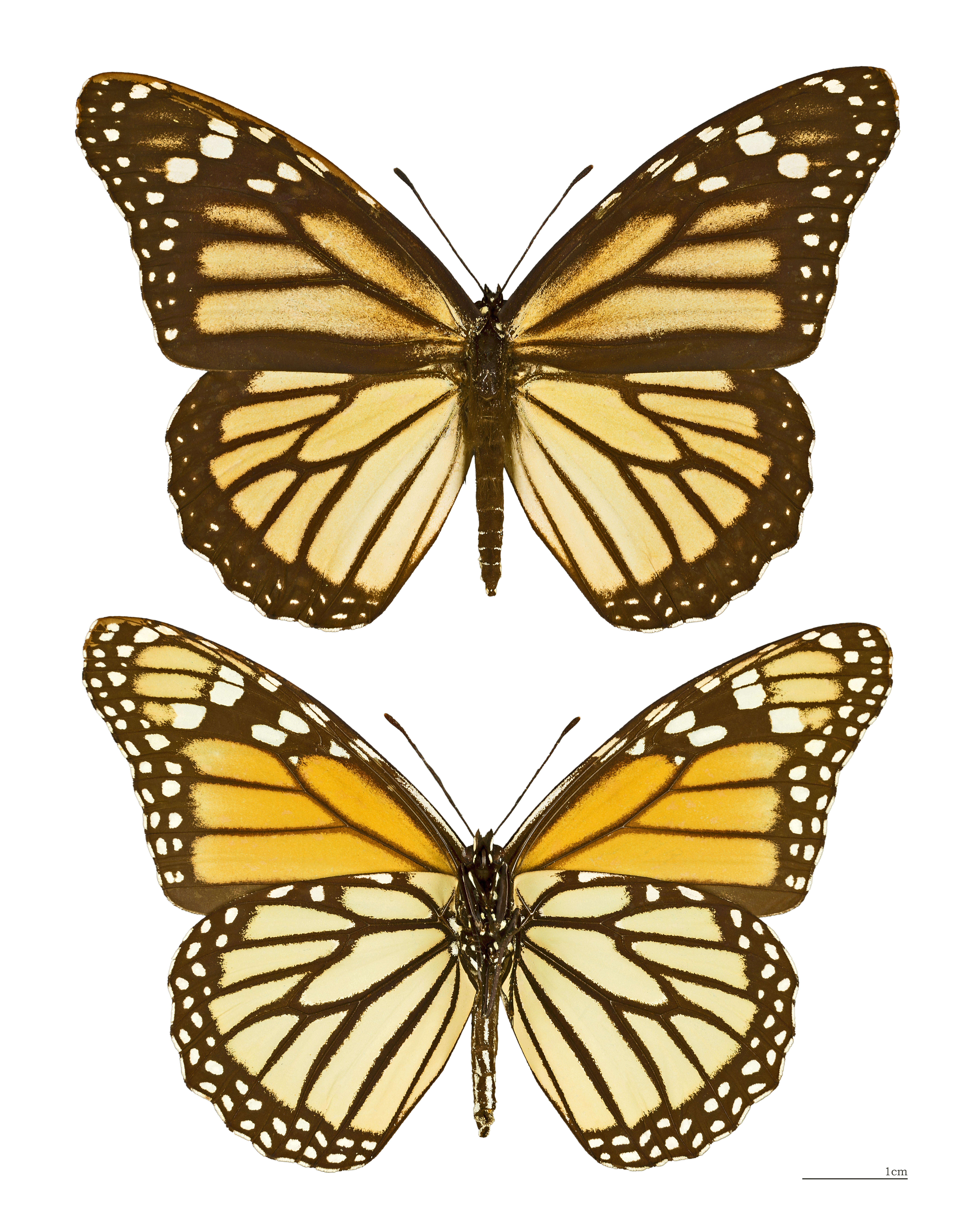 Monarch butterfly. Two views of same specimen